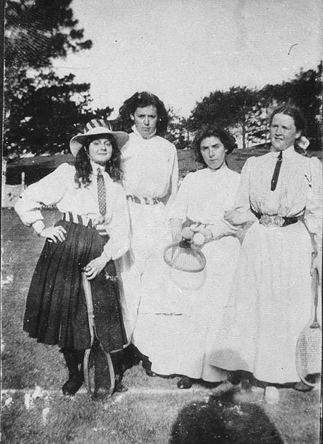 Students of Kambala Girls School Sydney, NSW circa 1890's.